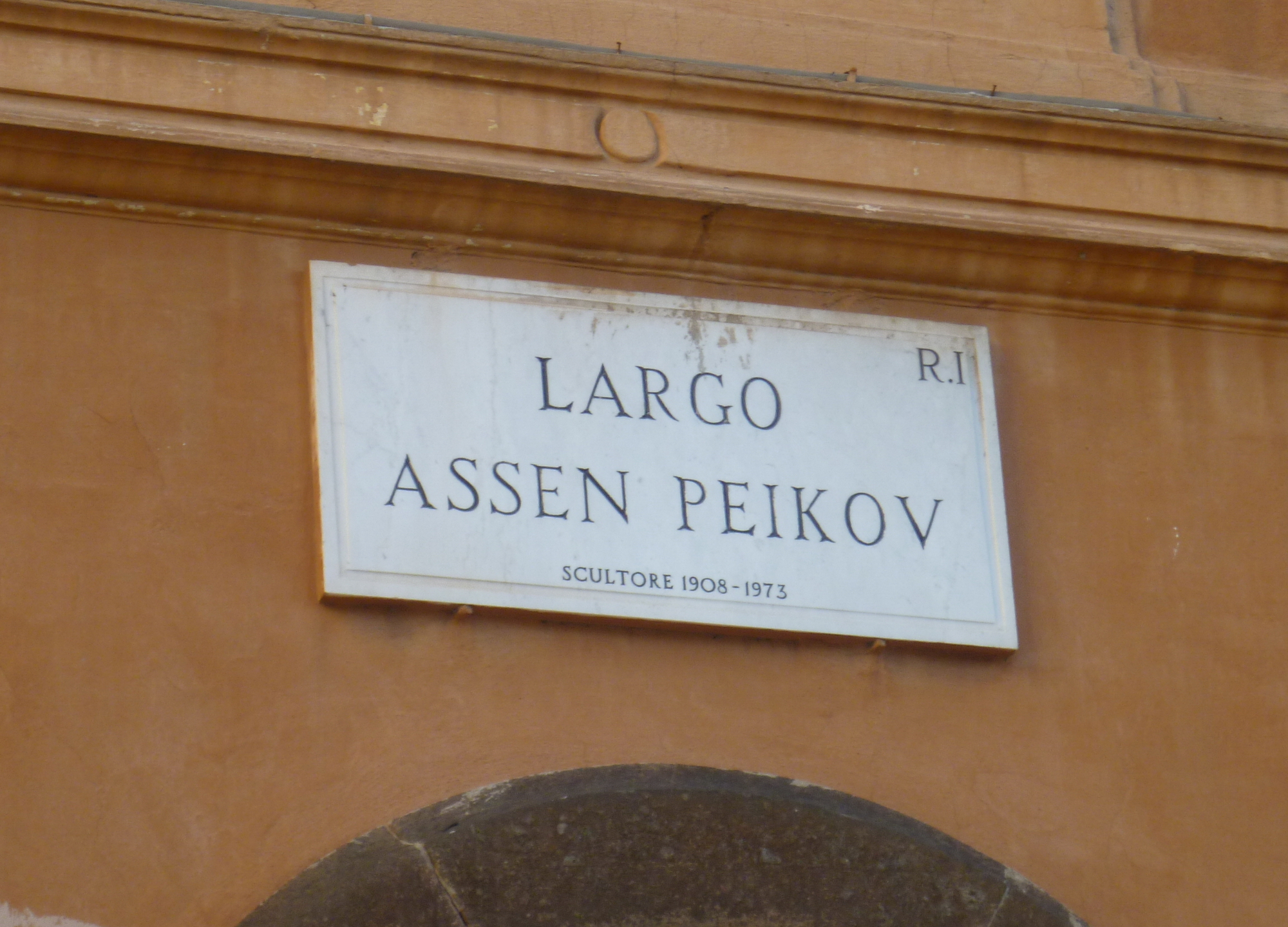 Largo Assen Peikov